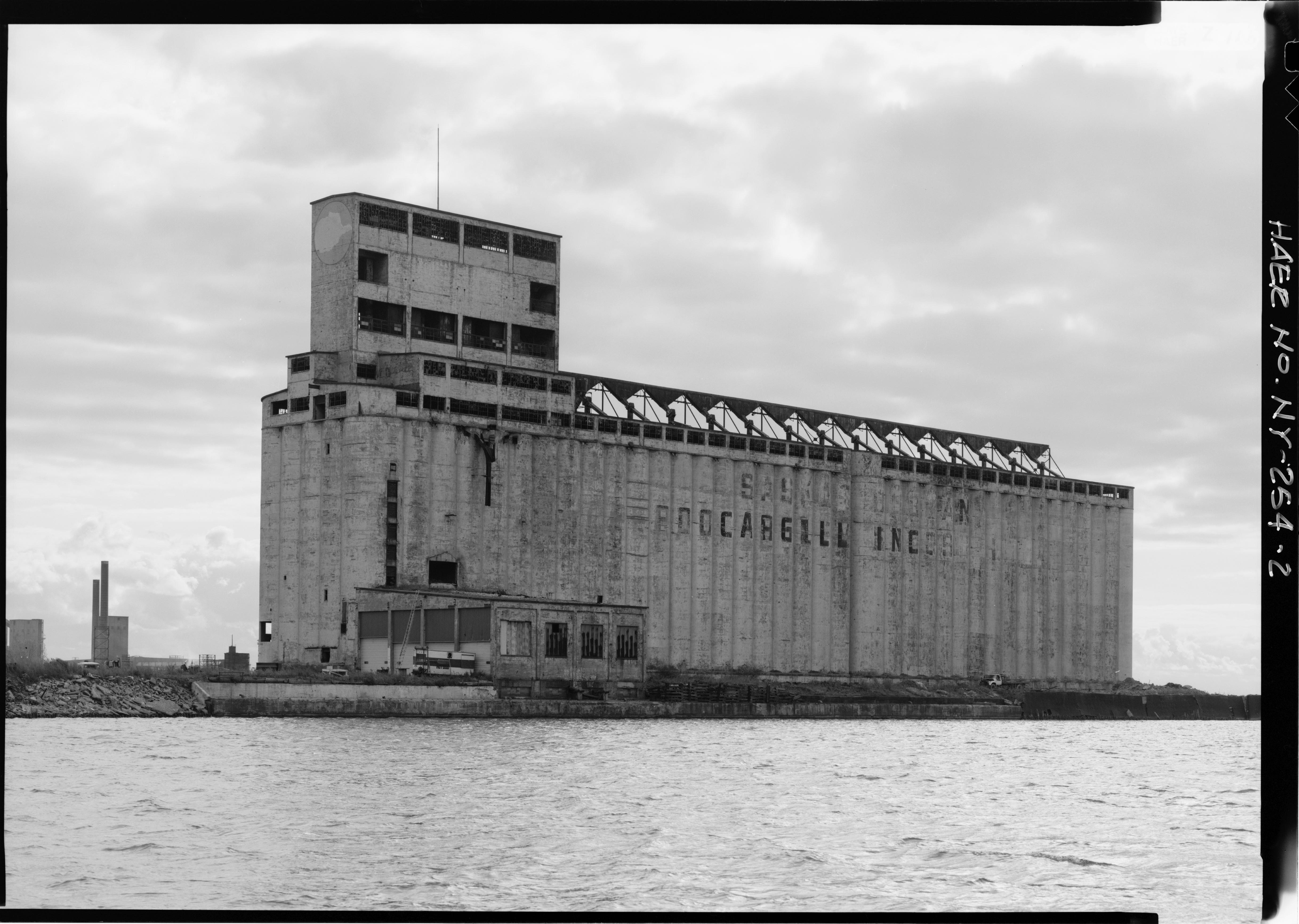 Saskatchewan Cooperative Elevator, 1489 Furhmann Boulevard, Buffalo, (Erie County, NY) Elevation looking southwest.